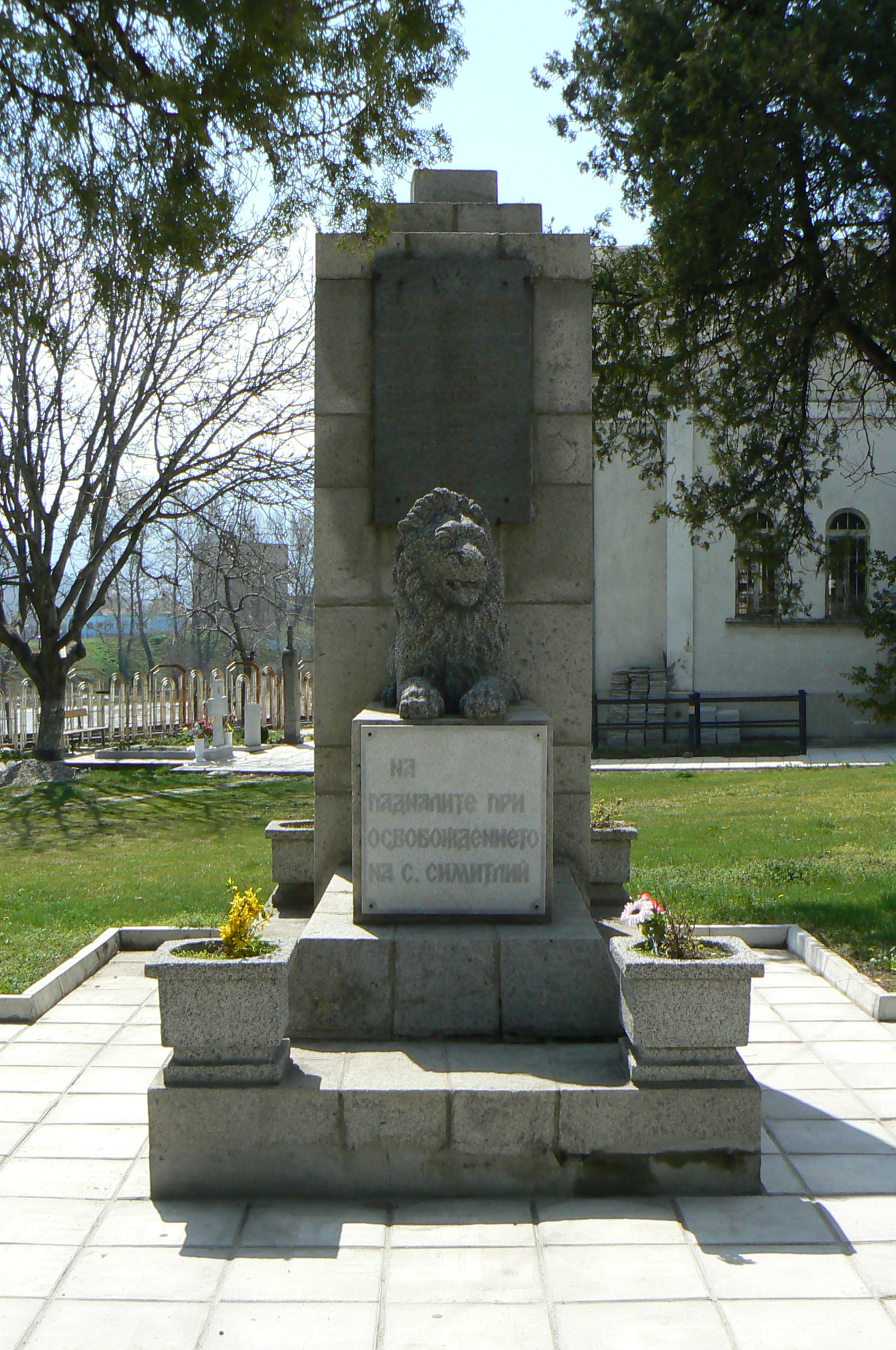 The liberation war memorial in the town of Simitli, Bulgaria